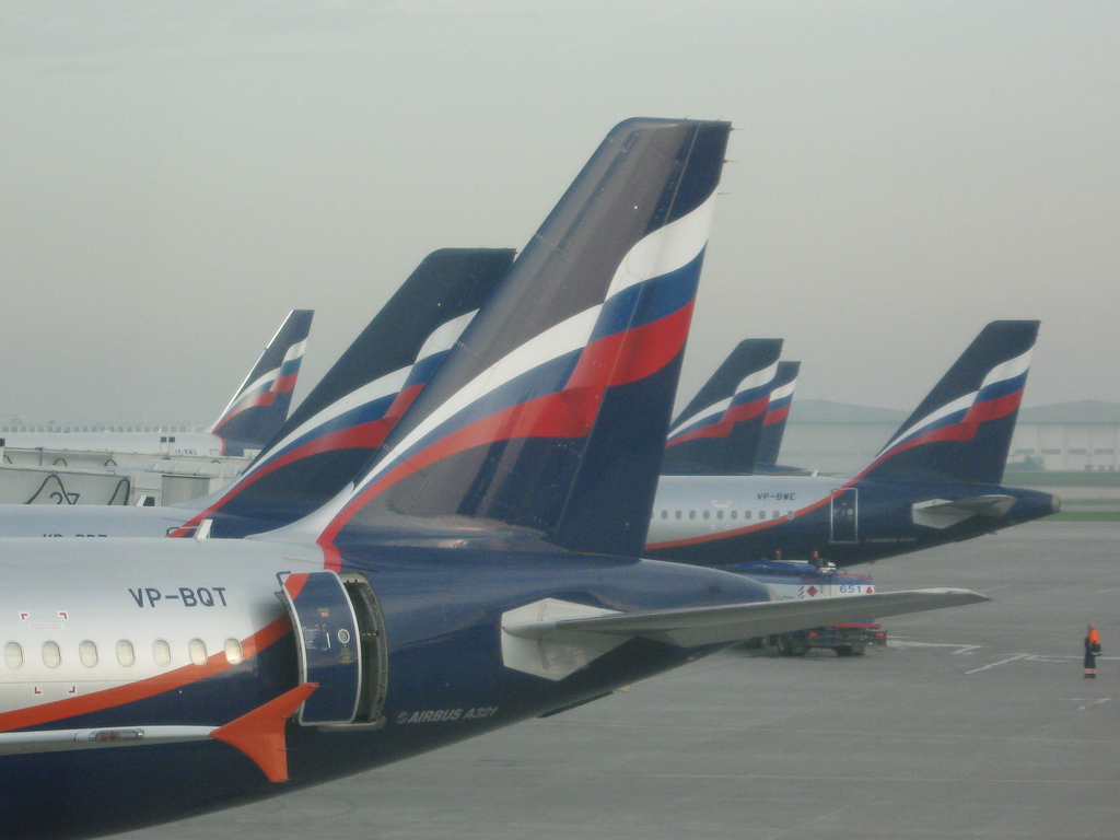 Aeroflot aircraft at Moscow Sheremetyevo International Airport (SVO).